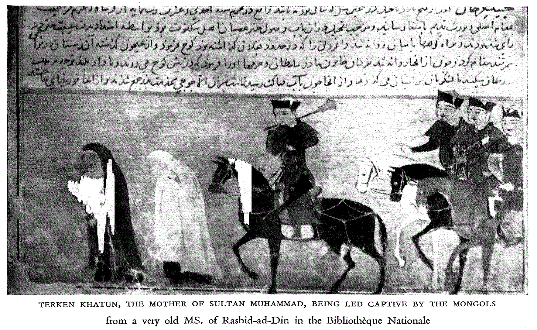 Terken Khatun, the mother of Sultan Muhammad, captive to Mongols